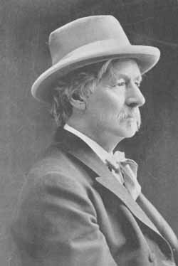 Photographic portrait of abolitionist and writer Franklin Benjamin Sanborn. Courtesy of the Massachusetts Historical Society, Portraits of American Abolitionists.